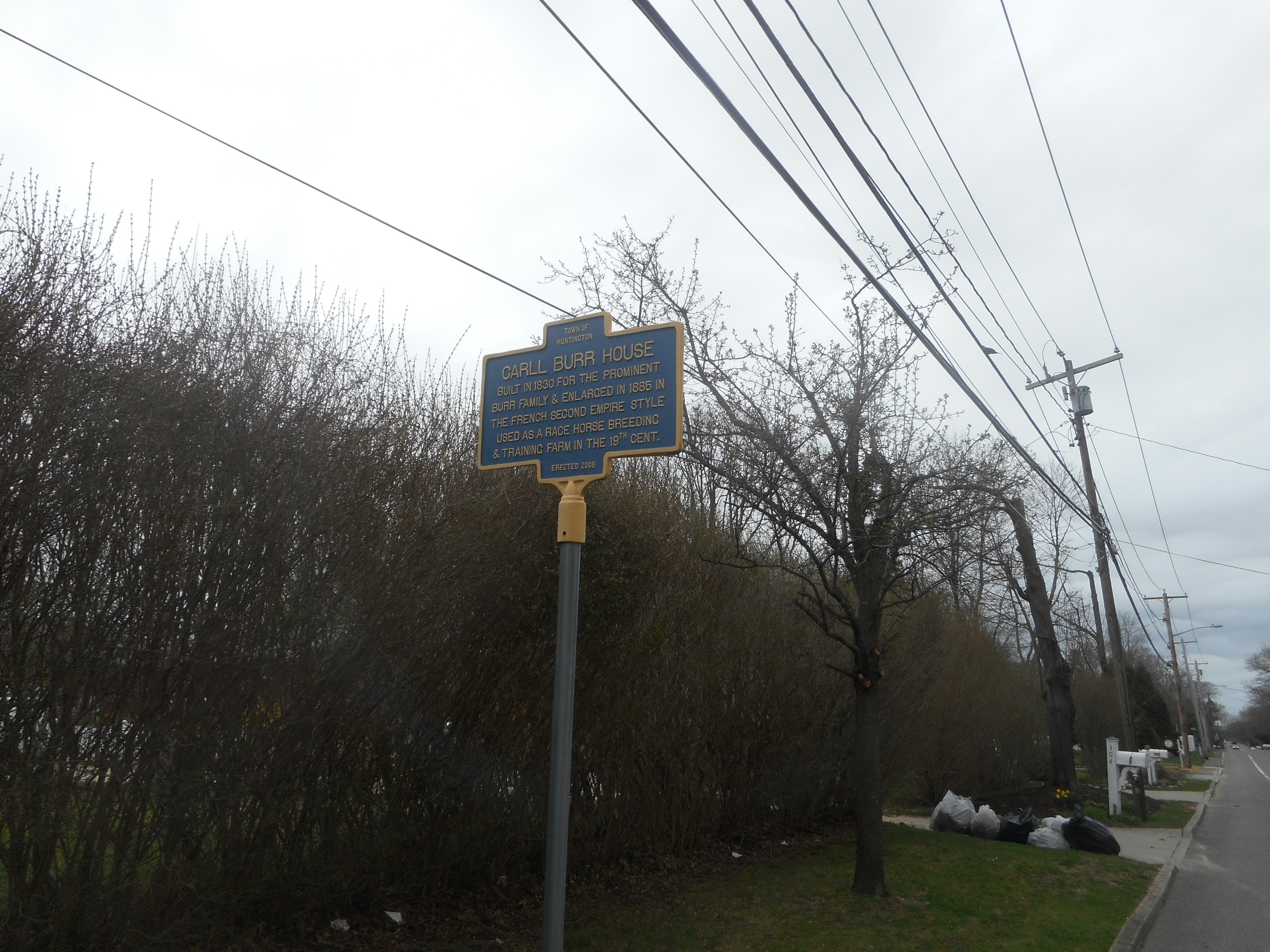 Town of Huntington Historical Marker in front of the shrubbery, which itself is in front of the NRHP listed Carl S. Burr Mansion on Burr Road in Commack, New York. My intended target was actually the nearby Carll Burr Jr. House.